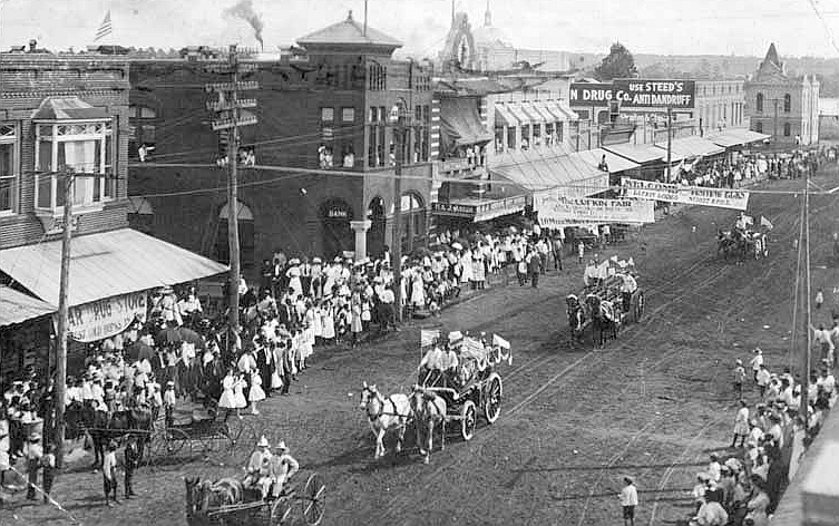 Title: [Parade, Lufkin, Texas] Creator: Nicks, Allen, 1877-1956 Date: ca. 1911 Part of: The George W. Cook Dallas/Texas Image Collection Series: Series 3: Photographs Series 3, Subseries 3, Postcards Series 3, Subseries 3d, RPPC, Texas Place: Lufkin, Angelina County, Texas Description: This real photographic postcard shows a parade through Lufkin, Texas. Physical Description: 1 photographic print (postcard): gelatin silver, 9 x 14 cm File: a2014_0020_3_3_d_0657_c_lufkinfair.jpg Rights: Please cite DeGolyer Library, Southern Methodist University when using this file. A high-resolution version of this file may be obtained for a fee. For details see the web page. For other information, . For more information and to view the image in high resolution, see